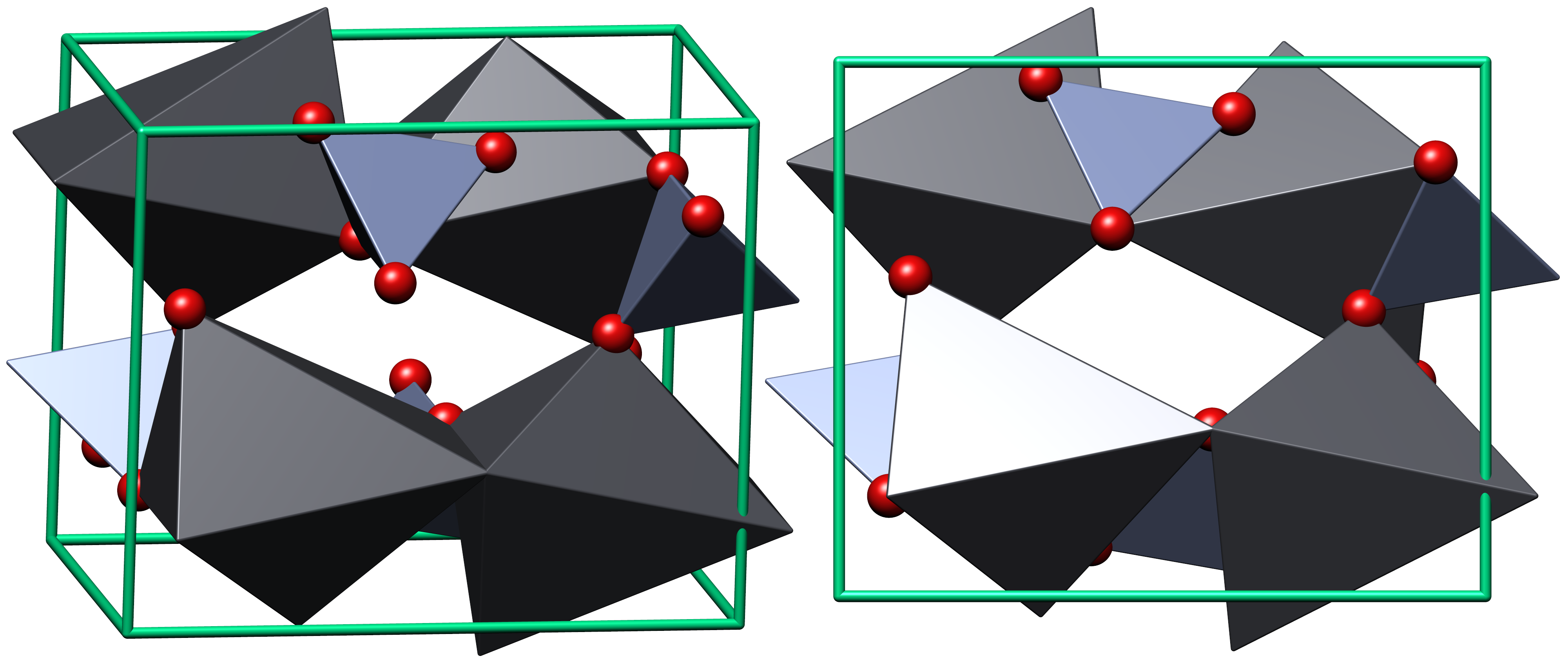 Crystal structure of crocoite - PbCrO4. Knight K S Colour code: Chromium, Cr Oxygen, O Lead, Pb Cell